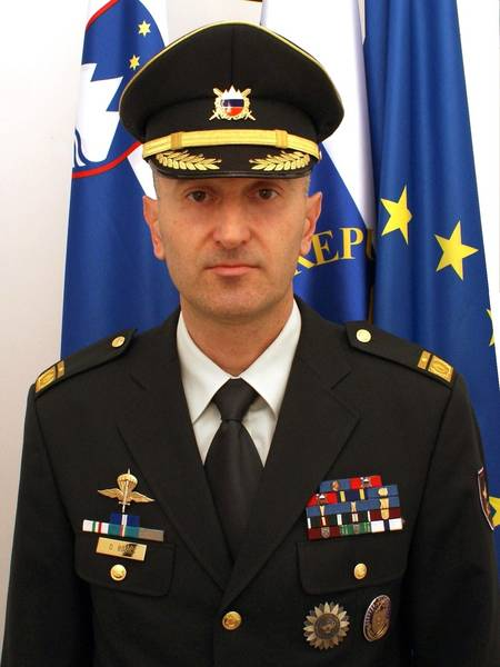 Dobran Božič, Slovenian brigadier and Chief of Staff of the Slovenian Armed Forces